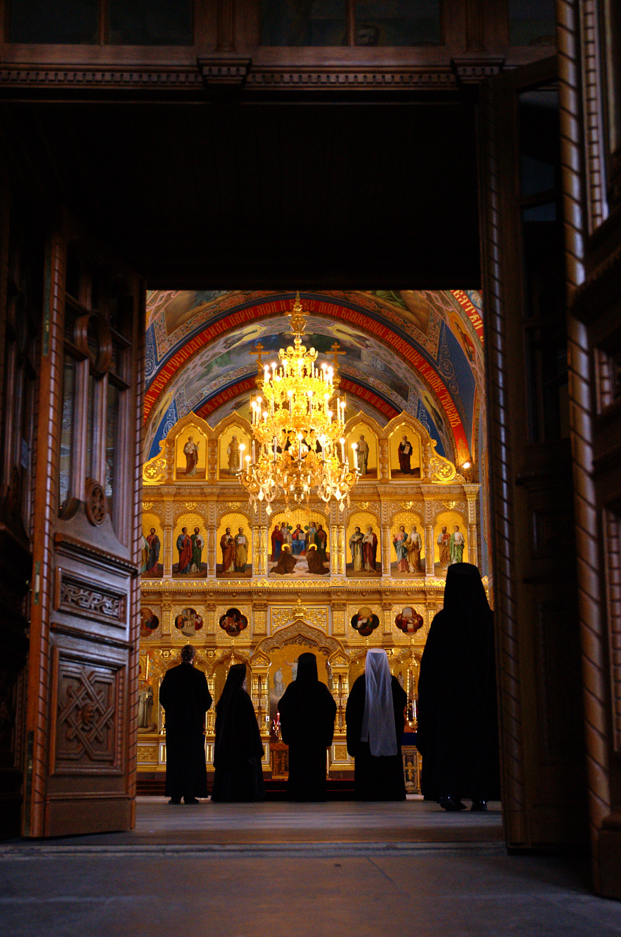 Upper church of Spaso-Preobrazhensky Cathedral, Valaam monastery. Restored and sanctified again after the soviet-era contamination